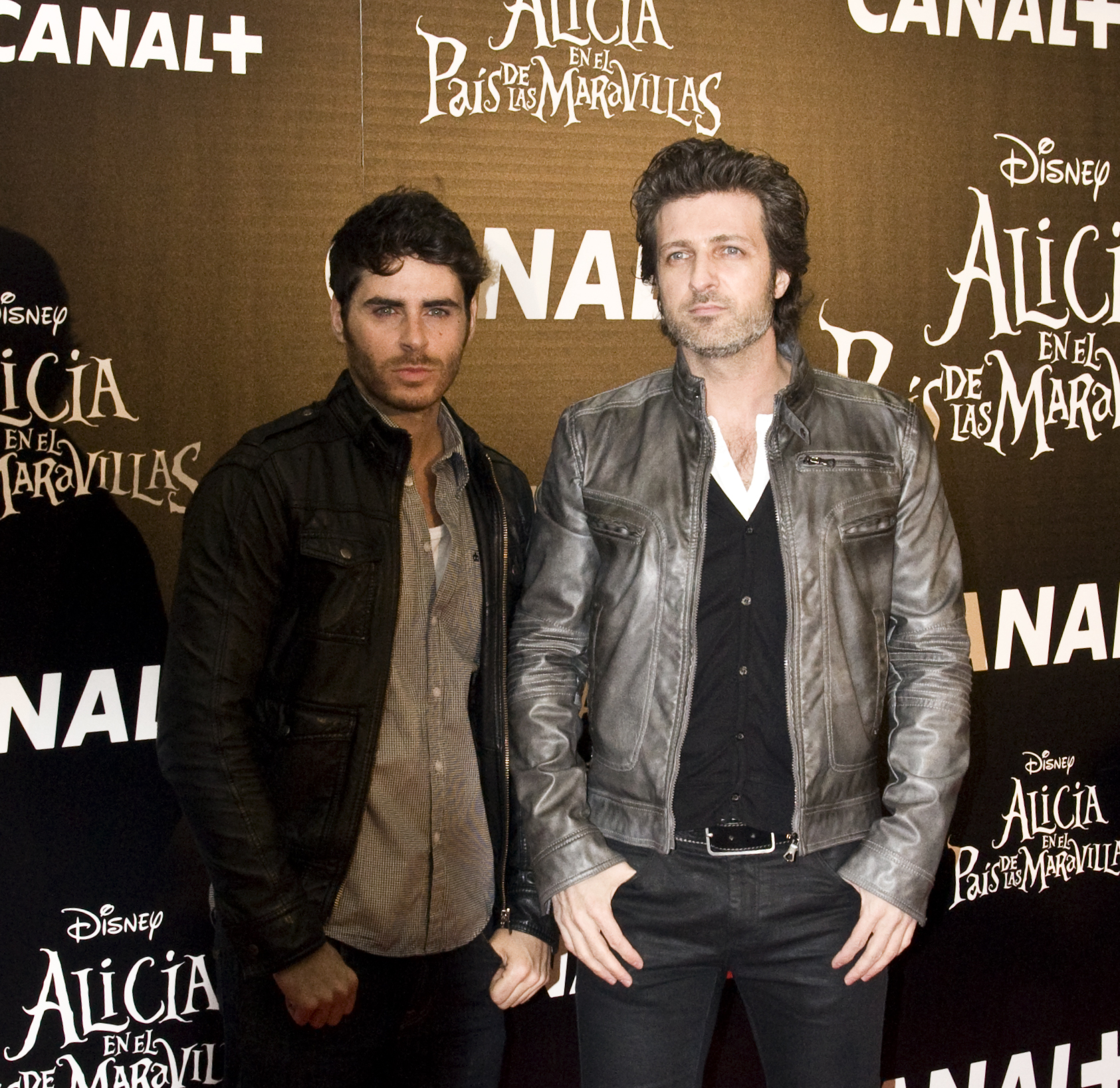 Jesús Olmedo and José María Galeano Spanish actors at the photocall of Alice in Wonderland in 2010.